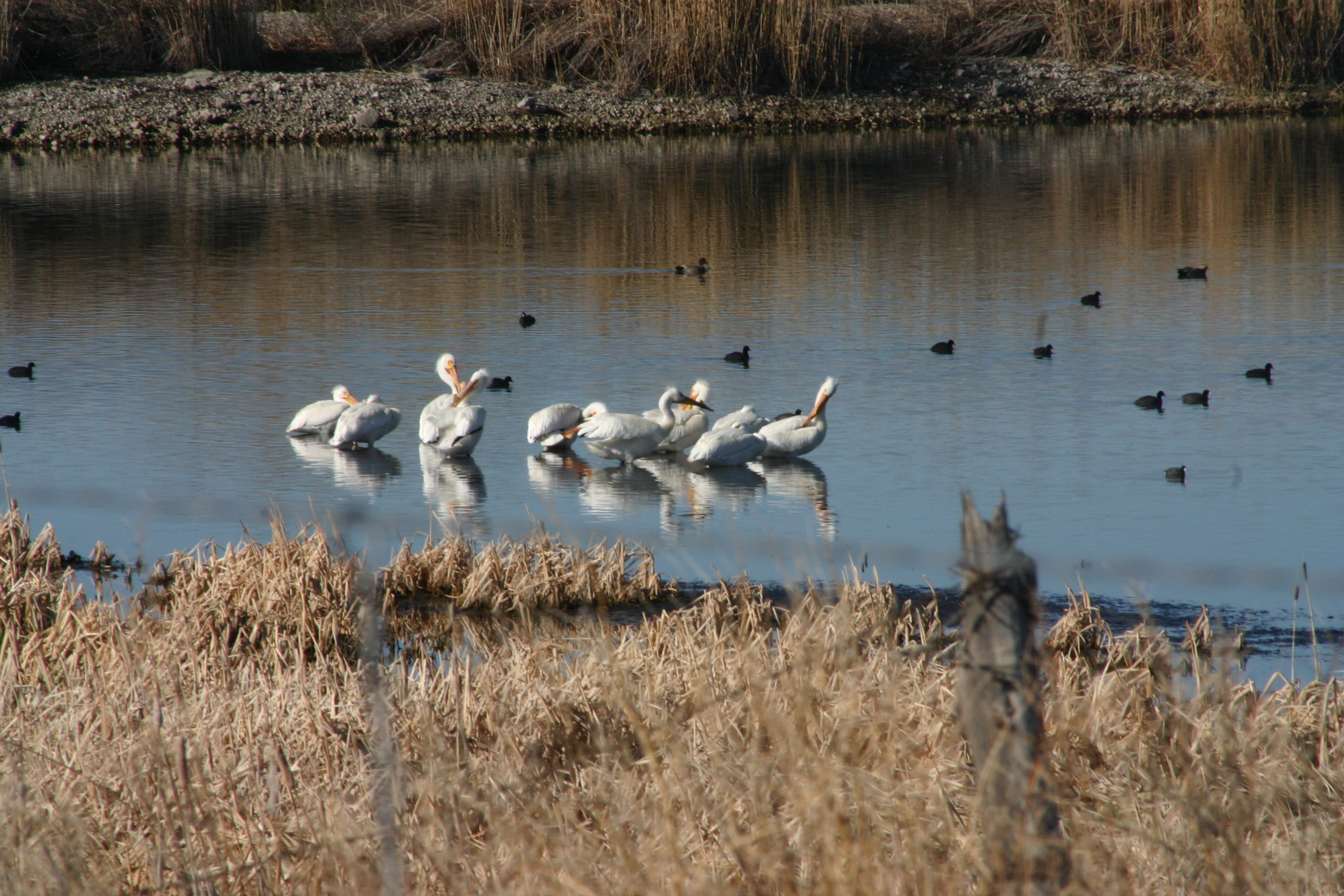 Pelicans and Ducks at Utah Lake be Lindon Boat Harbor